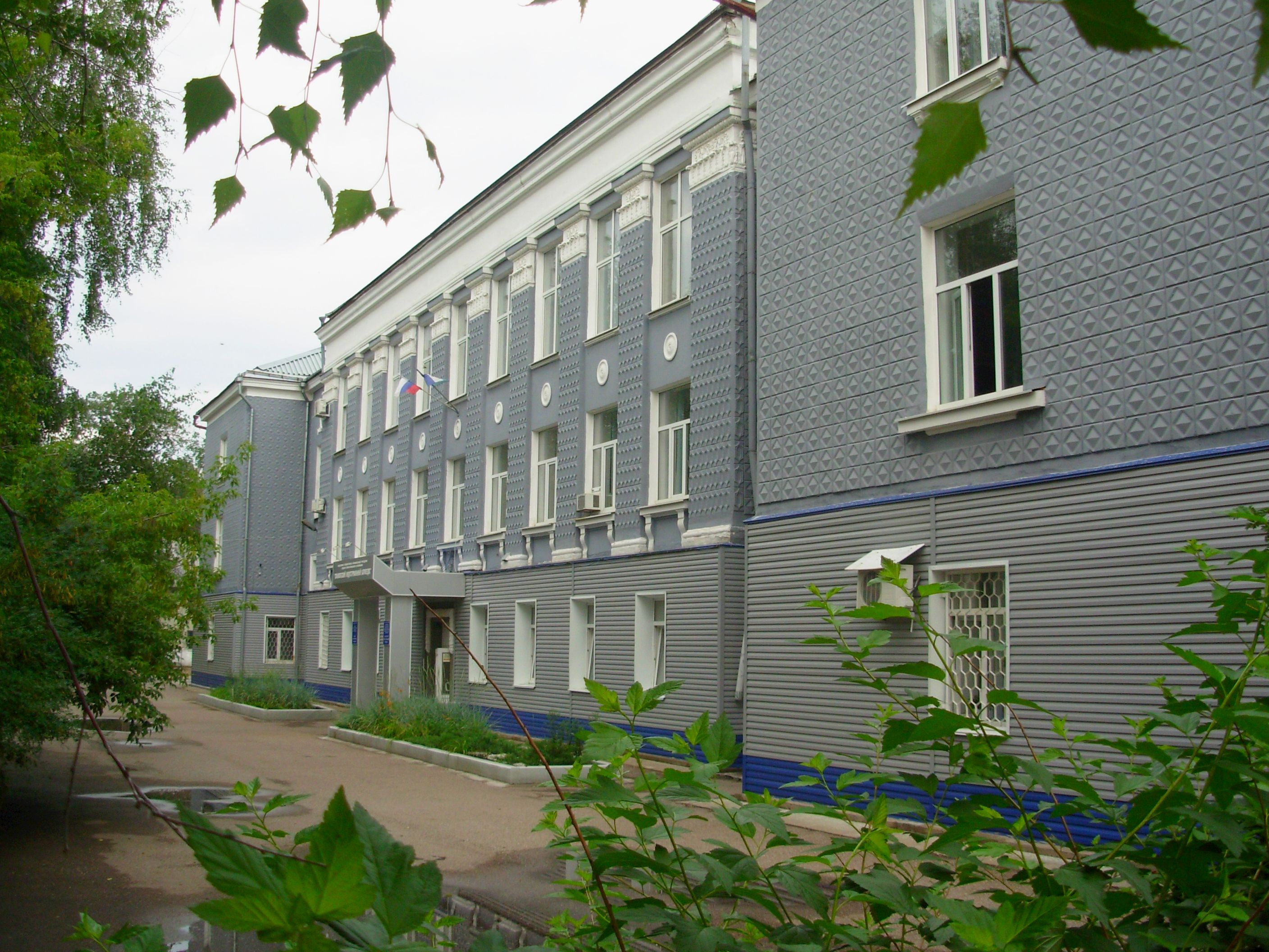 street